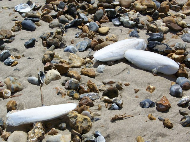 Cuttlebones from the Common cuttlefish (Sepia officinalis). Found on the beach at Hengistbury Head.